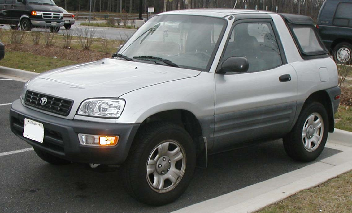 1998-2000 Toyota RAV4 convertible photographed in USA.